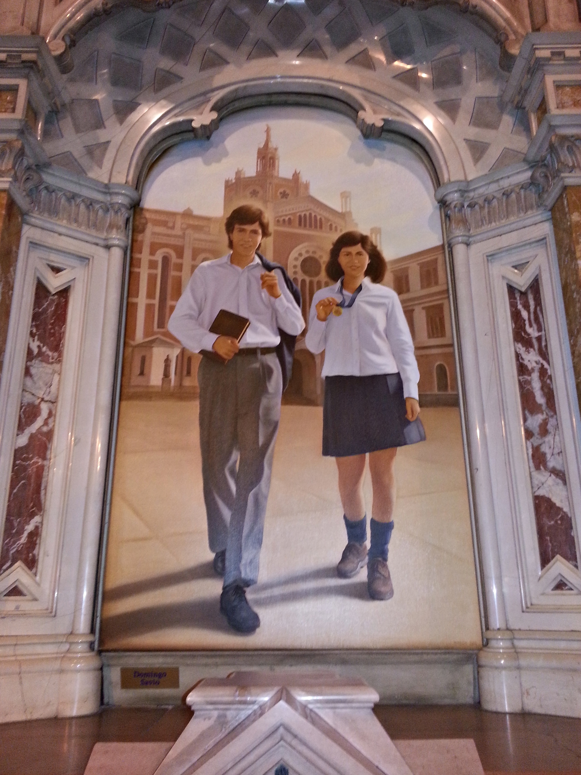 Altar to Dominic Savio and Laura Vicuña, at the Basilica Mary Help of Christians and Saint Charles Borromeo, Buenos Aires, Argentina.